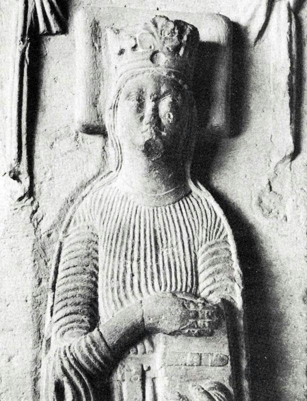 Queen Catherine of Sweden (1244) of Sweden as depicted on her now damaged grave monument at Gudhem